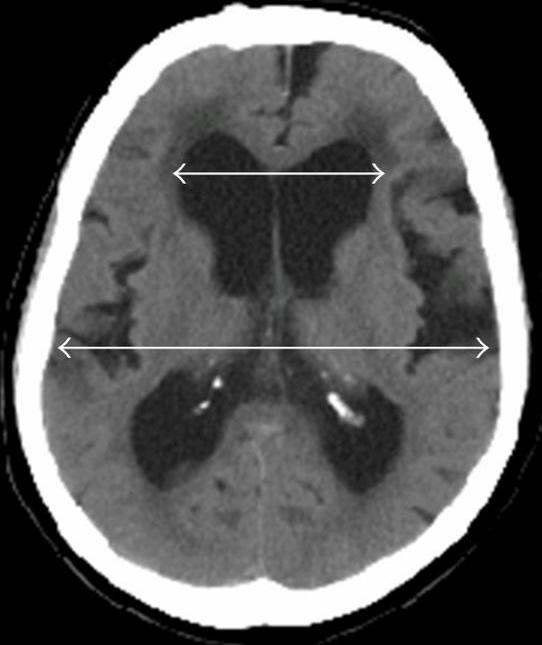 Evan's index (ratio of maximum width of the frontal horns to the maximum width of the inner table of the cranium) is a measurement indicating the severity of normal pressure hydrocephalus.